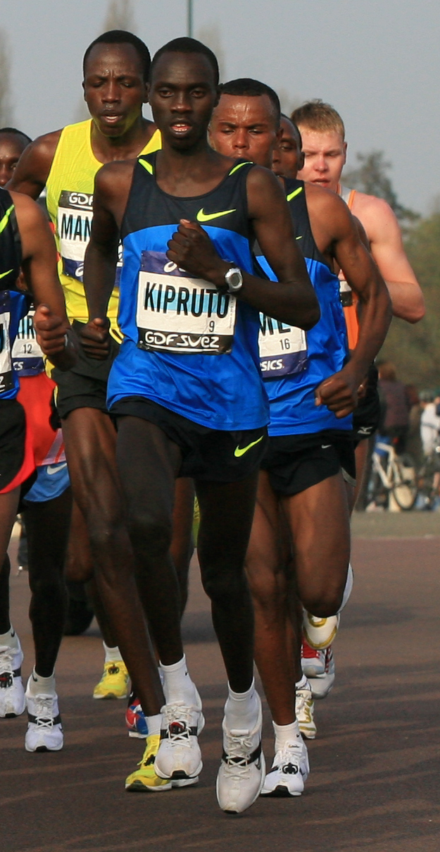 Vincent Kipruto at Paris marathon 2009